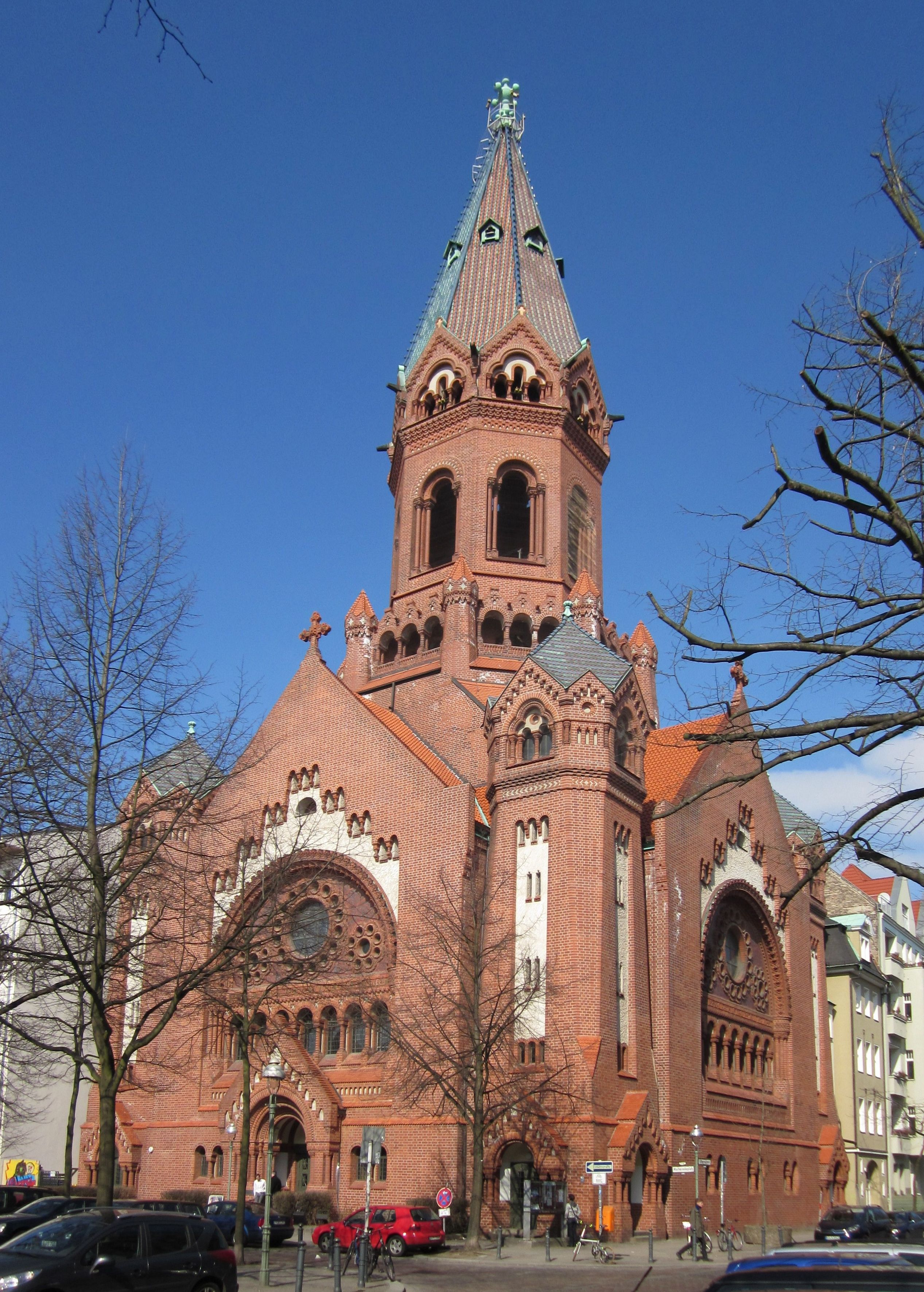 The protestant Passionskirche (Passion Church) on Marheinekeplatz in Berlin-Kreuzberg. It was built from 1904 to 1907 to a design by Theodor Astfalck. The church has been designated as a historic landmark.